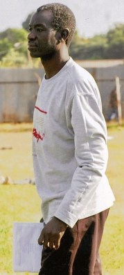 Picture of Zambian football coach Peter Kaumba